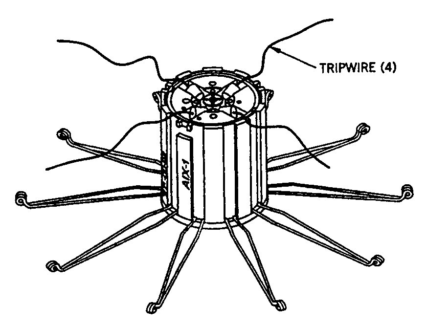 An Bulgarian POMD-1 scatterable anti-personnel landmine - shown as a cutaway.